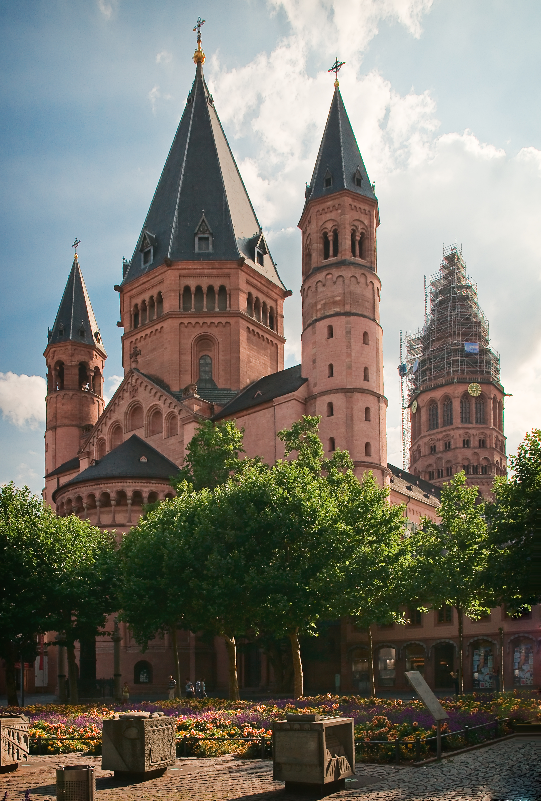 Mainz Cathedral as seen from the Gutenberg-Museum